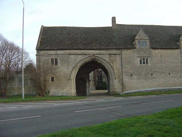 The gatehouse, Northborough Hall. Also known as Northborough Castle, the Hall is in fact a fortified medieval manor house dating from 1329-30. The main residence is in fact very un-castle-like, but the site was originally moated and the defensive capabilities of the very fine gatehouse are clear in this picture. Although improvements were made in later centuries, the essential medieval buildings are unchanged.